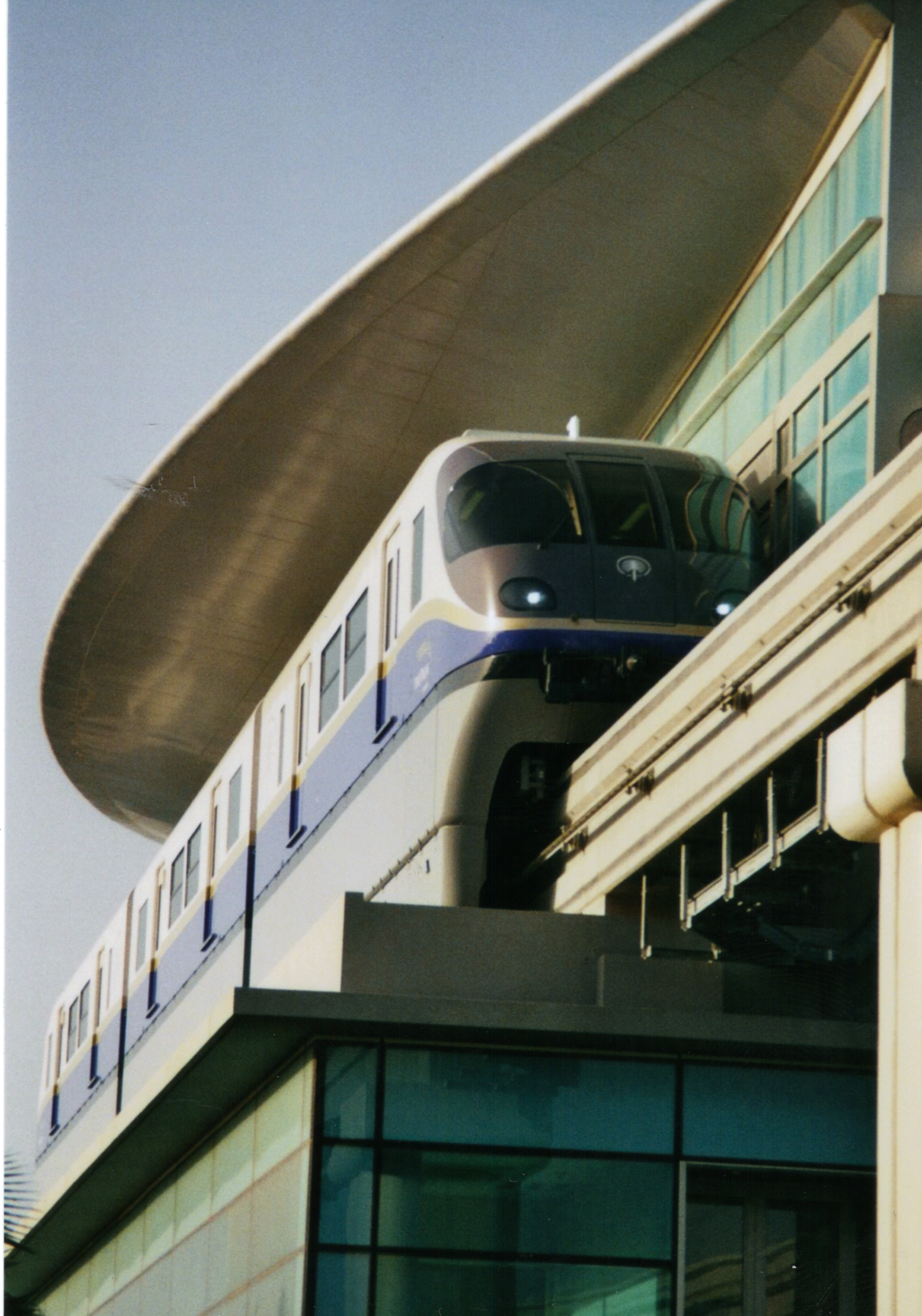 Dubai Monorail, Atlantis terminal